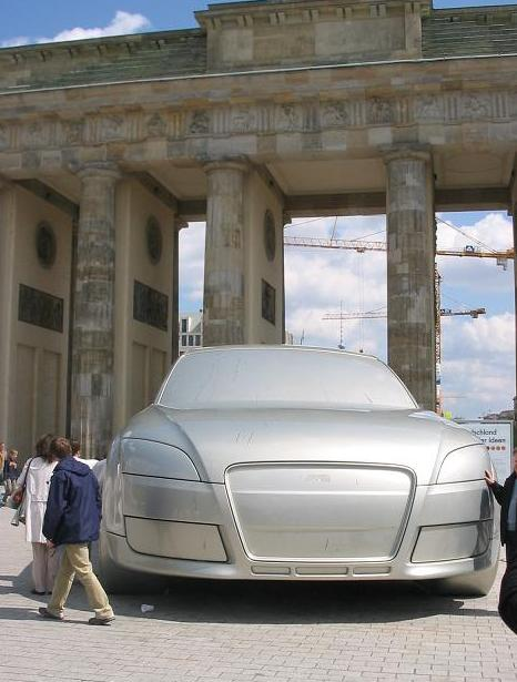 „The Automobile“, third sculpture (from six) of the Berliner Walk of Ideas on the occasion of 2006 FIFA World Cup Germany. Unveiling: 6 April 2006 at Brandenburger Tor, west side.